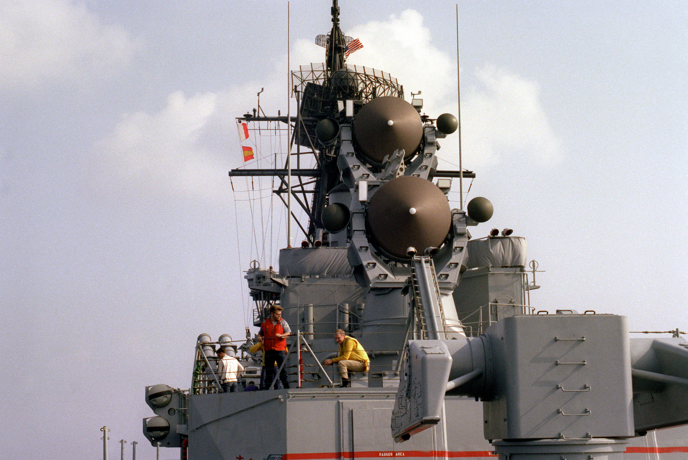 U.S. Navy crew members take a break under the twin SPG-55B fire control radar systems aboard the guided missile destroyer USS Mahan (DDG-42), 21 August 1983. The ship's Mark 10 Mod 0 missile launcher is in the foreground. Note: This is not an NTU-upgraded AN/SPG-55B radar. The Mark 10 Mod 0 removed the missle downlink horn and moved the doppler receiver antenna to the other side.